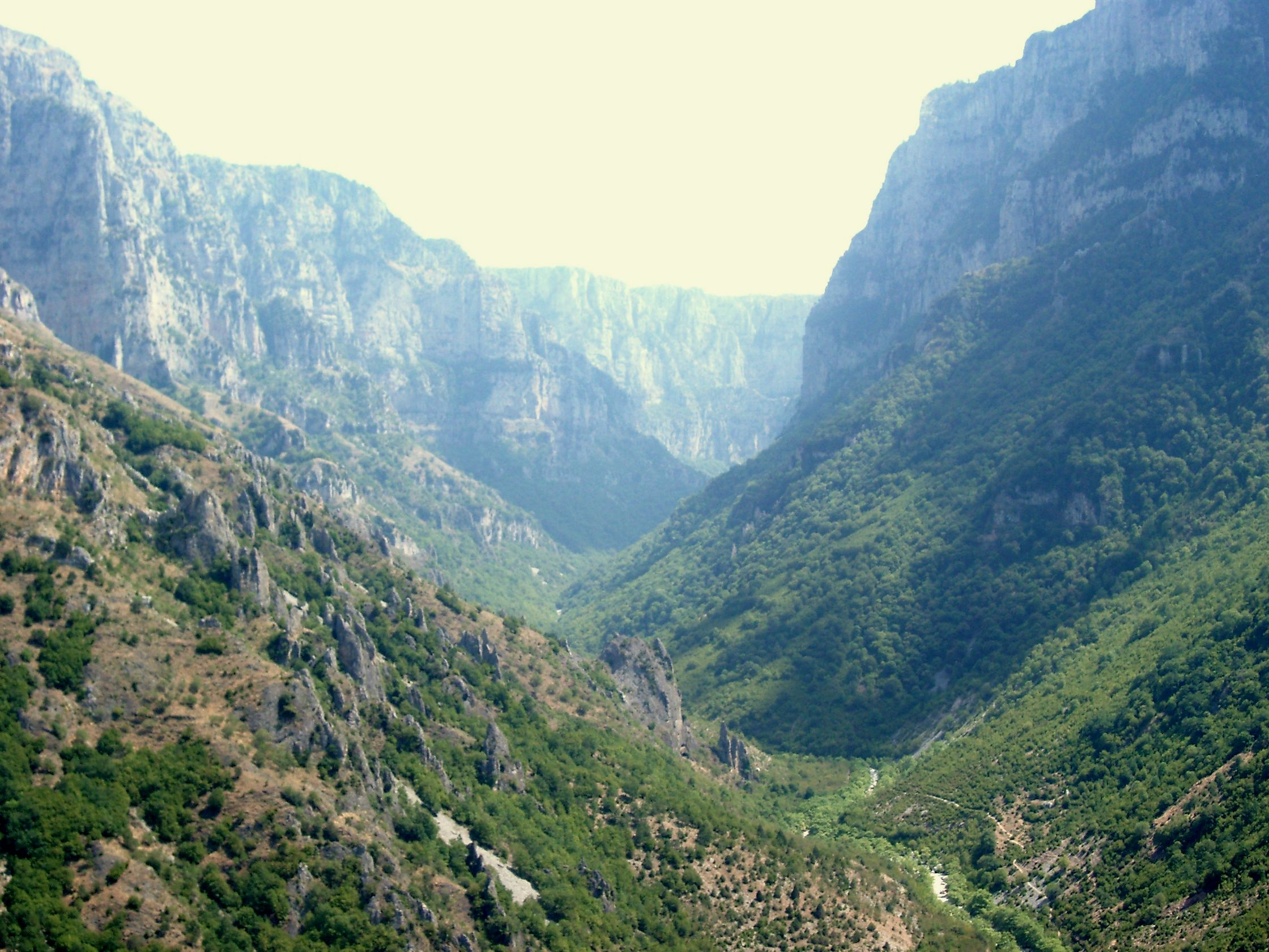 Vikos Gorge, Epirus, Greece